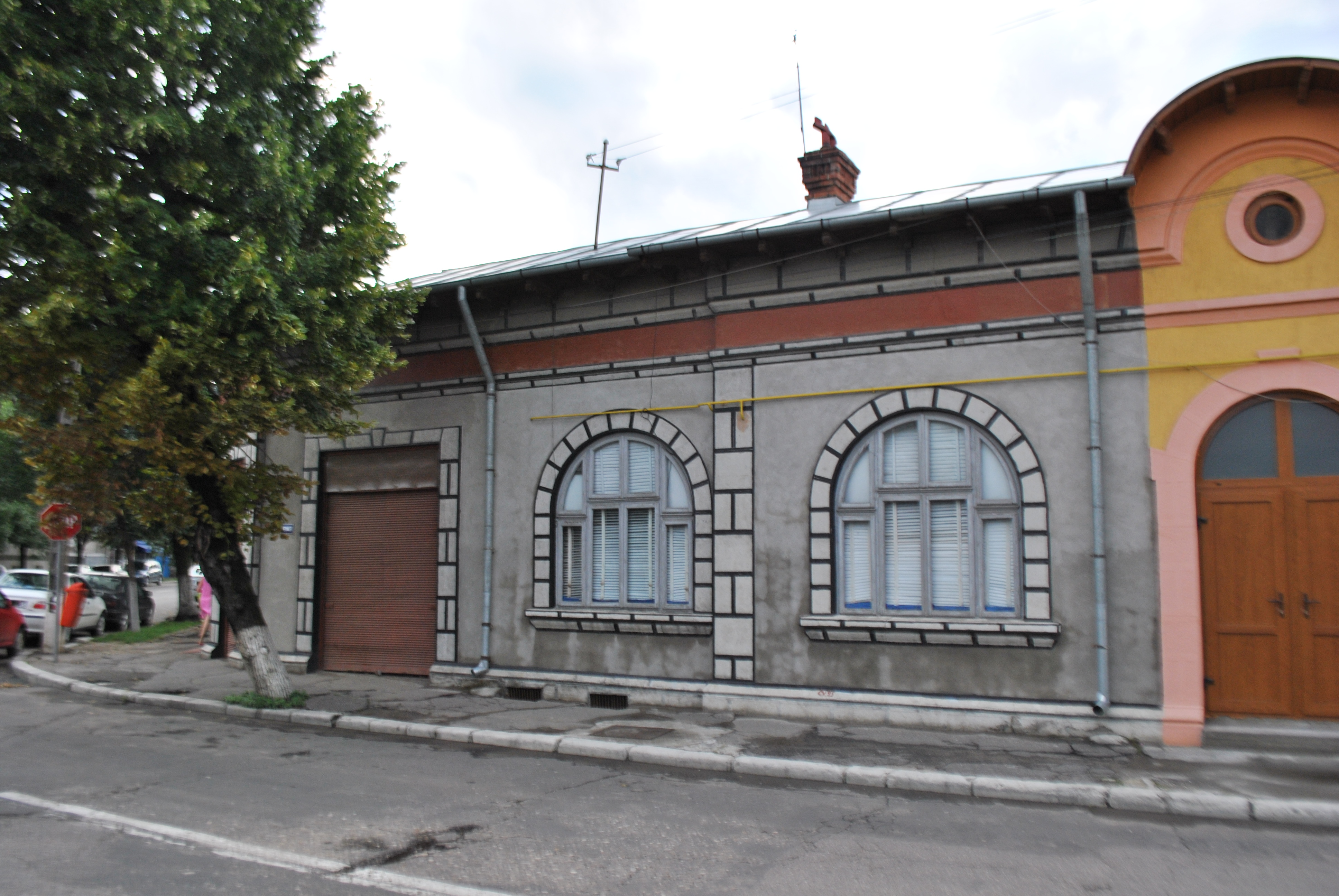 Săraru house, historic building in Buzău, RomaniaRomână: Casa Săraru din Buzău, România